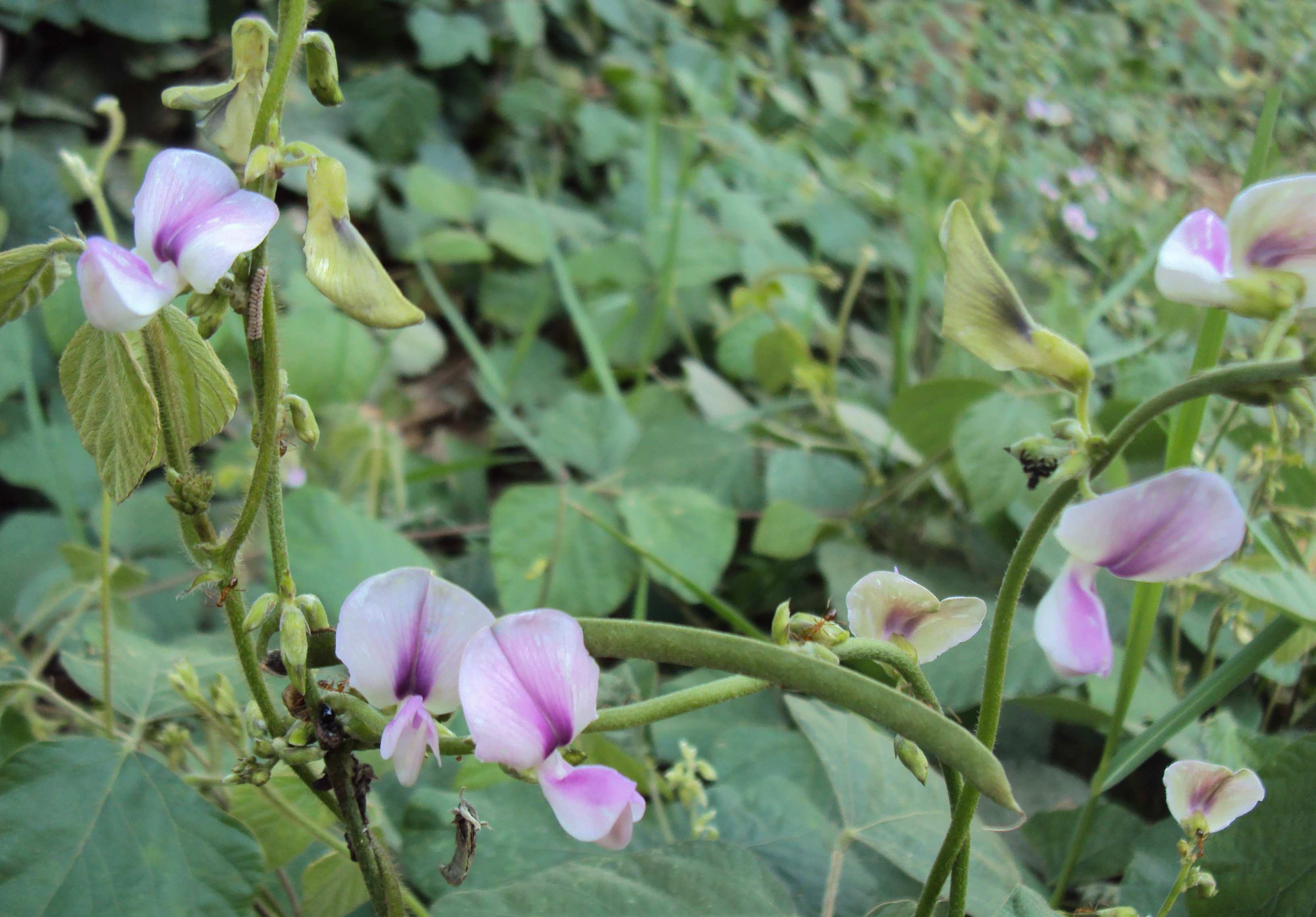 തോട്ടപ്പയര്‍